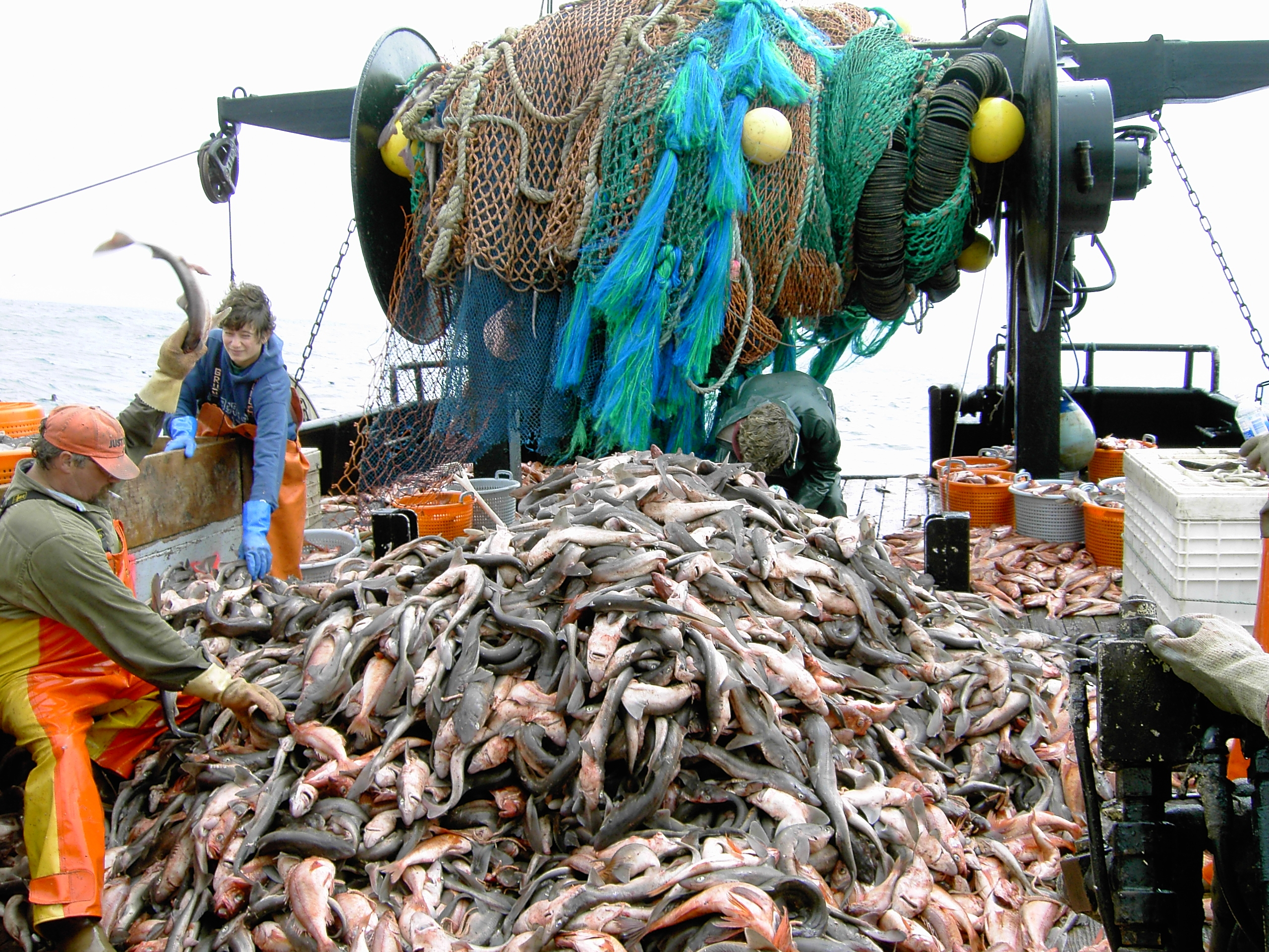 A mountain of dogfish (Squalus acanthias) caught during a trawl survey. California, Southern California Bight